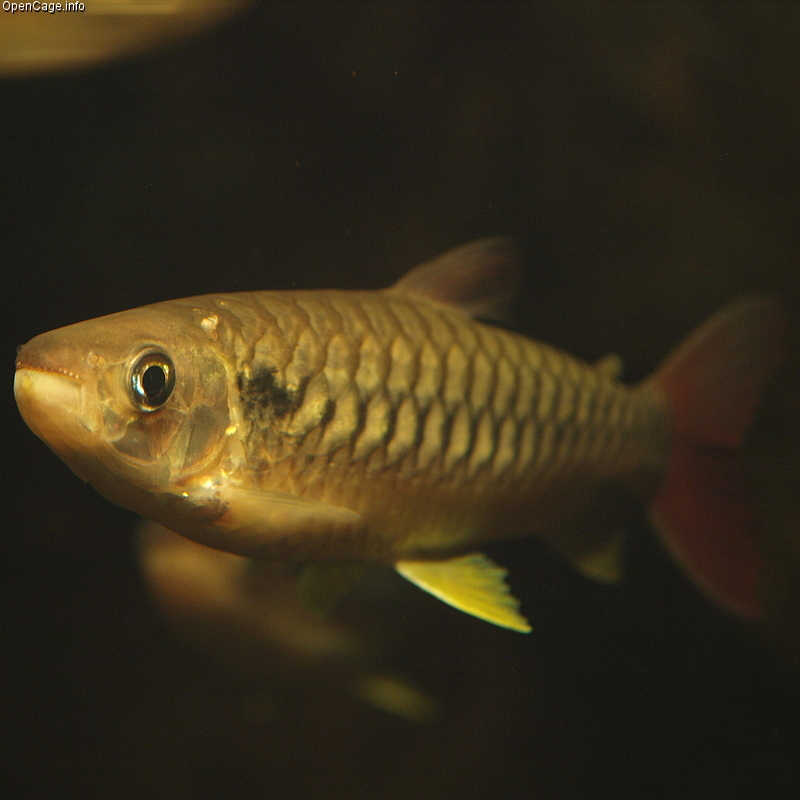 Pinktail chalceus, Pinktailed characin Chalceus macrolepidotus Cuvier, 1818